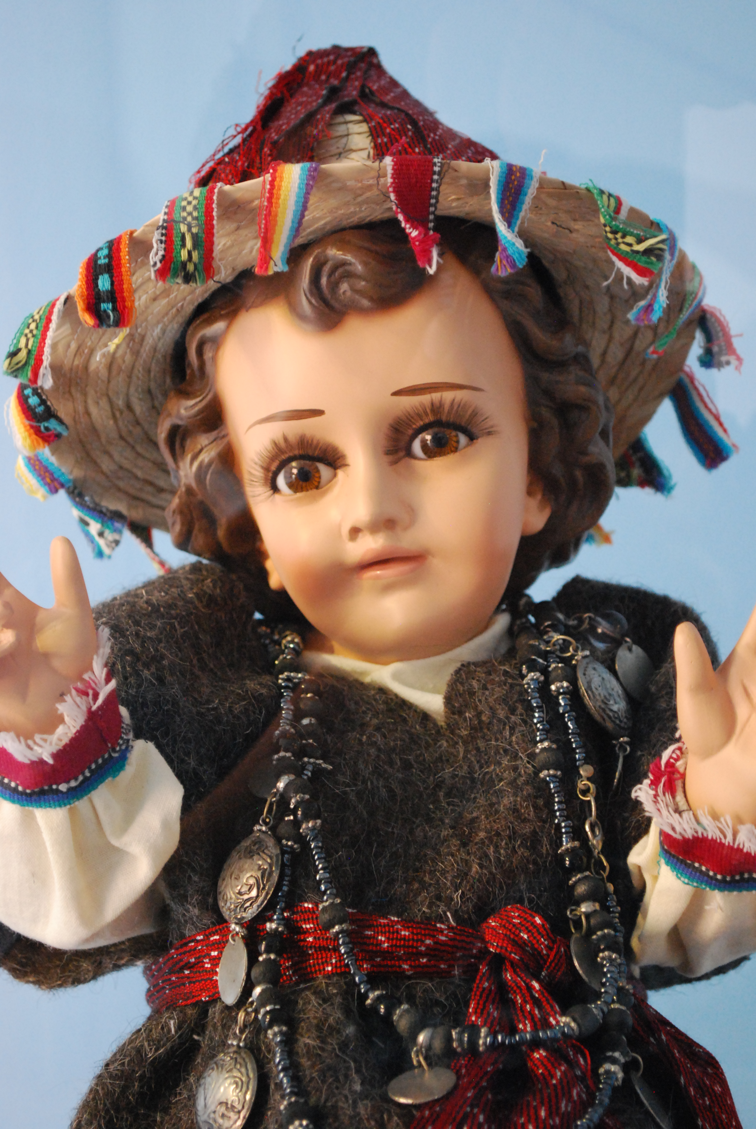 Niño Dios figure dresses as a Tzotzil person with costume by Lydia Lavín on display at the Museo Nacional de Culturas Populares in Mexico City